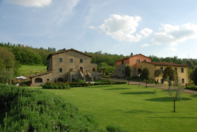 Front view of Casa Portagioia.